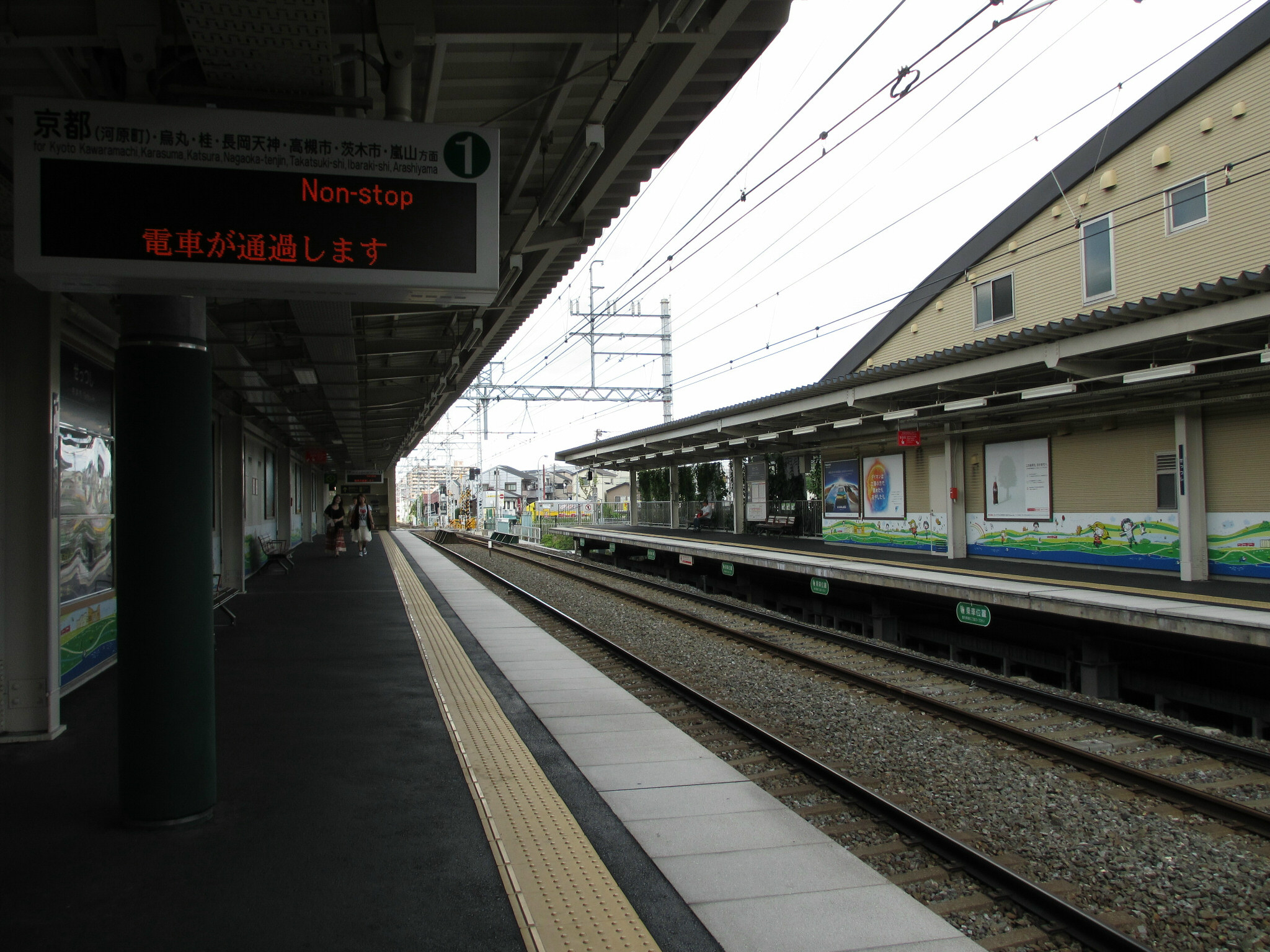 Hankyu Settsushi Station platform